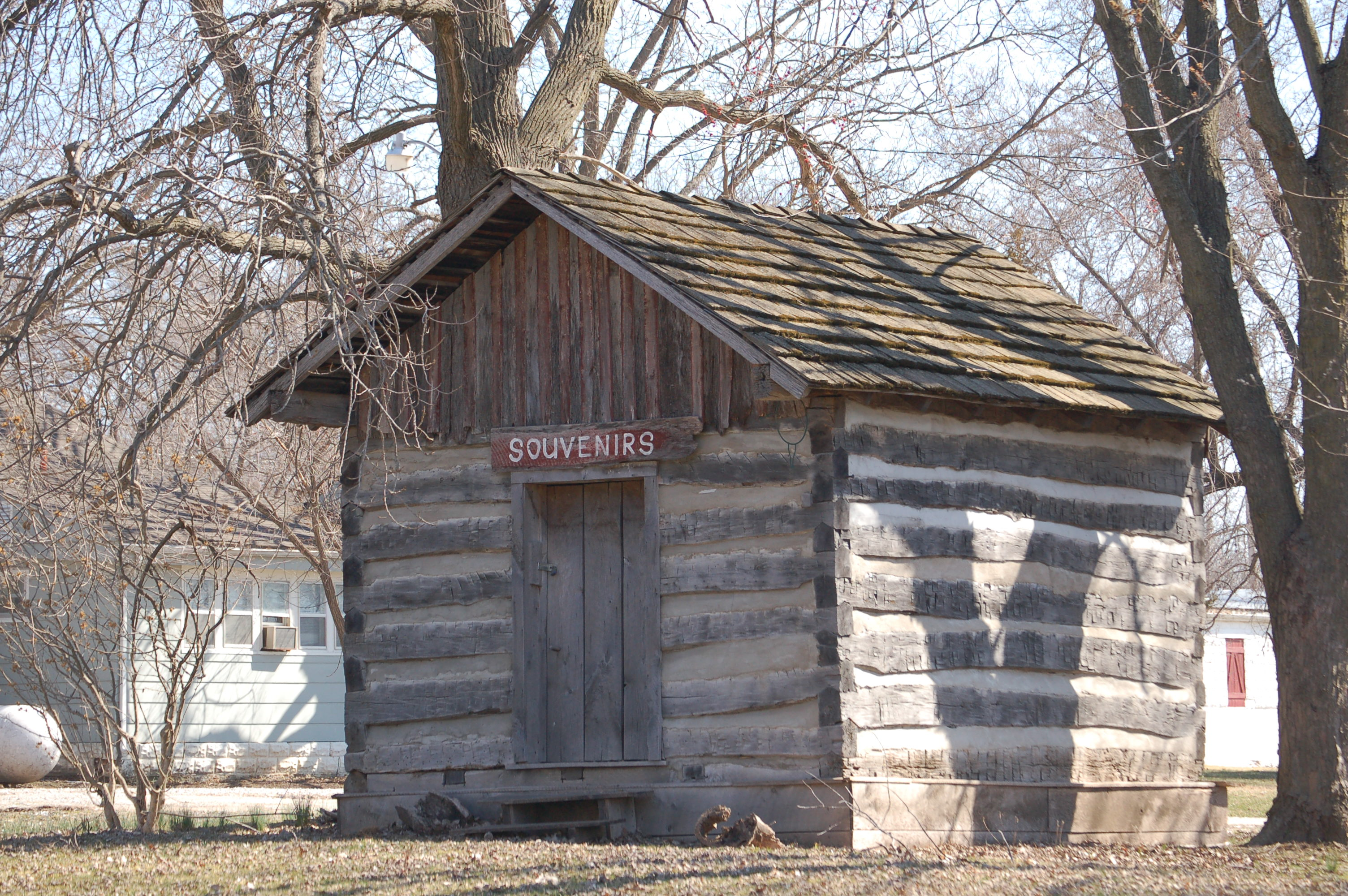 Log Smokehouse and souviner shop. Part of historic log homestead in Novinger, Missouri.